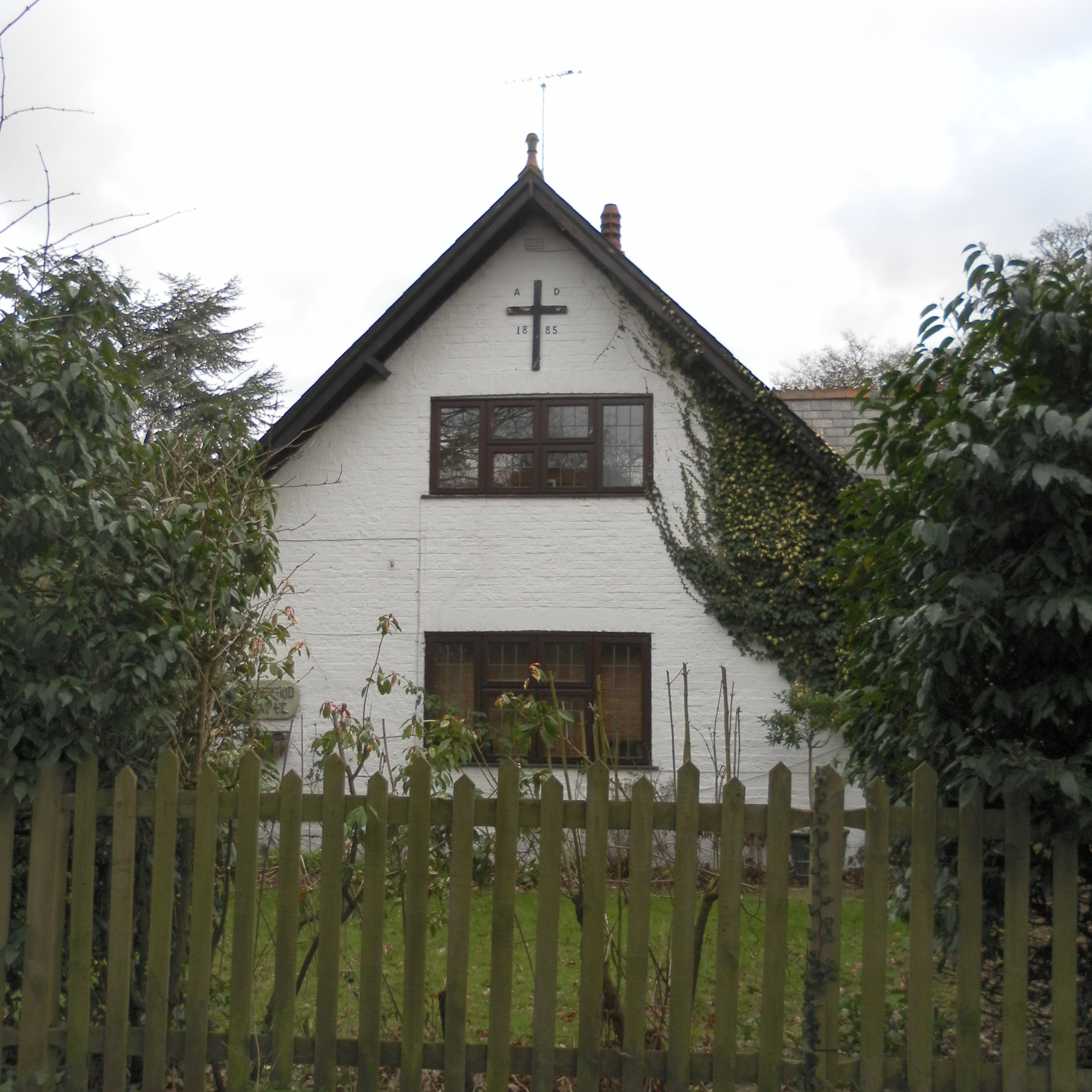 Touchwood Chapel, Peeks Brook Lane, Fernhill, Borough of Crawley, West Sussex, England. One of the borough's locally listed buildings. This was moved into West Sussex in 1974, long after it ceased to be a Baptist chapel. Fernhill used to be in Surrey.